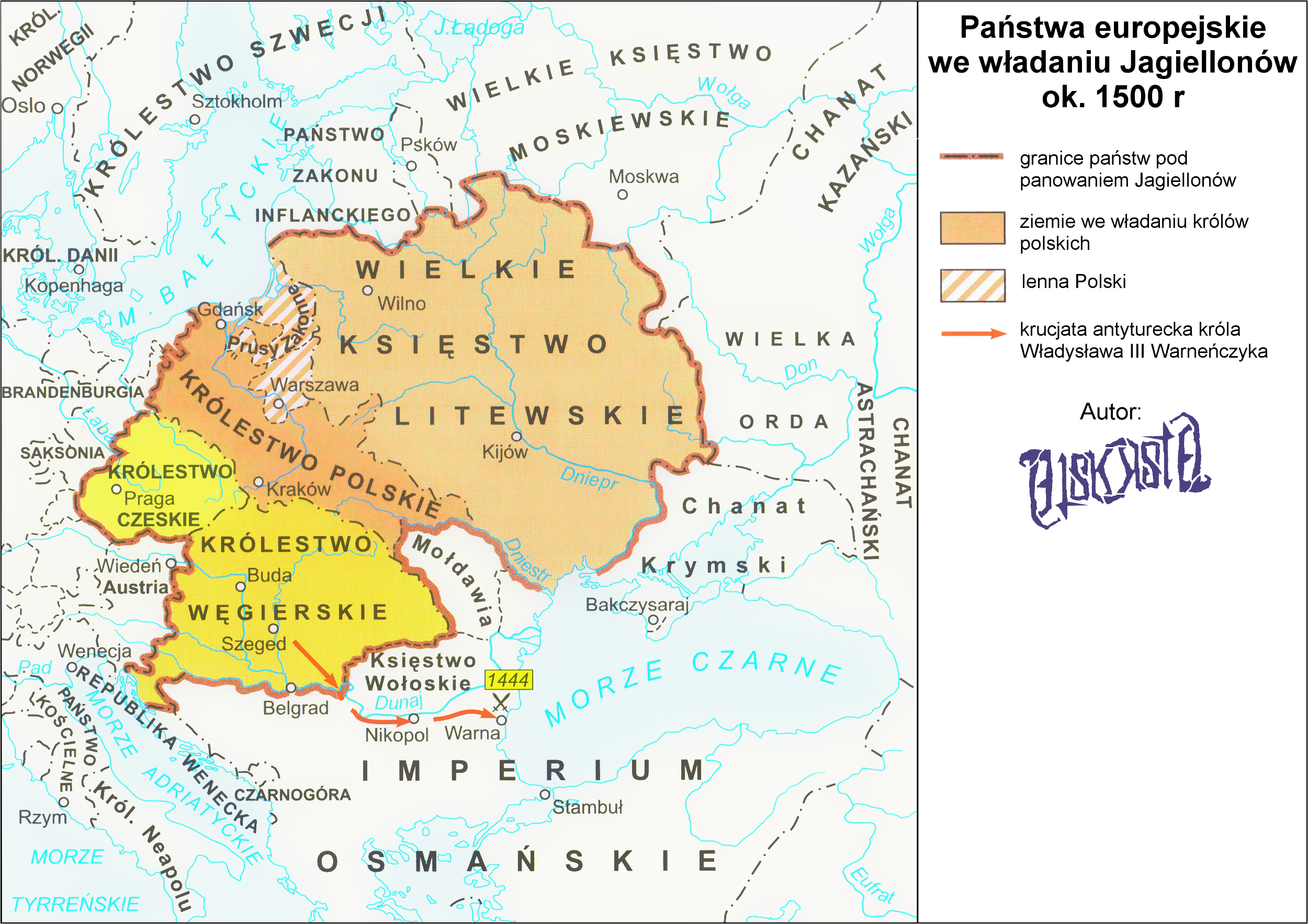 The map of the countries which were governed by Jagiellon dynasty